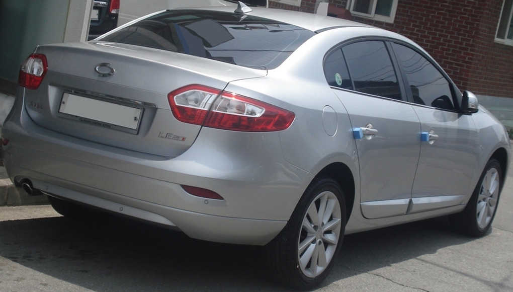 Renault Samsung New SM3